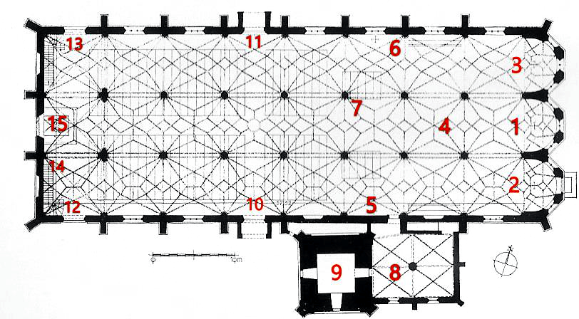 The floor-plan of the parish church St. Martin in Lauingen (Donau).